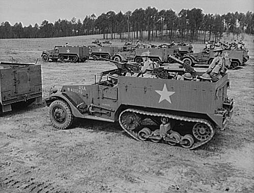 M2 Halftrac scout cars at Fort Benning. America's irresistable might grows every day. Soldiers of the armored forces training in halftrac scout cars at Fort Benning, Georgia are turning rapidly into hard, smart fighting men.